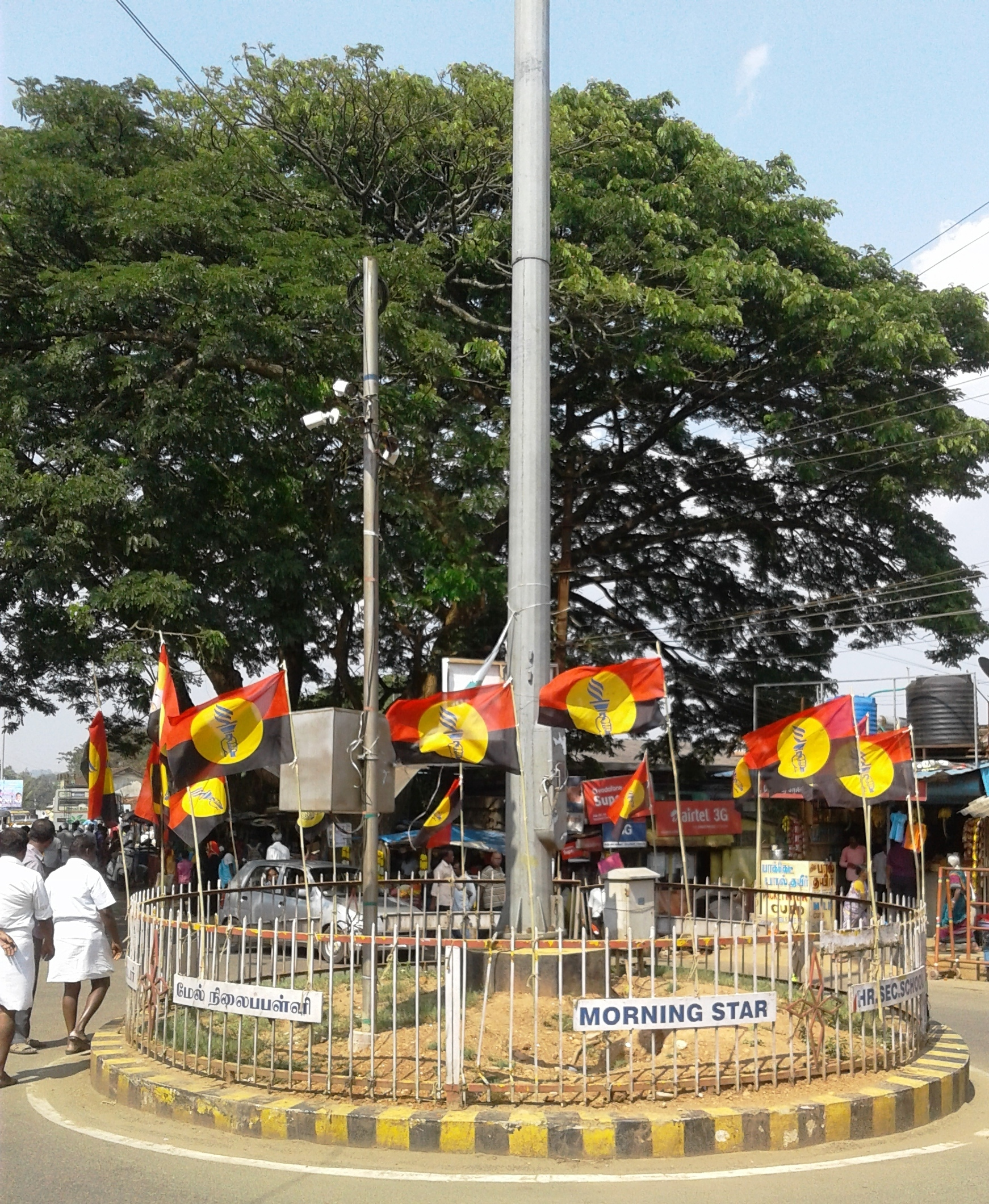 Nilgiri District, Tamilnadu, India.